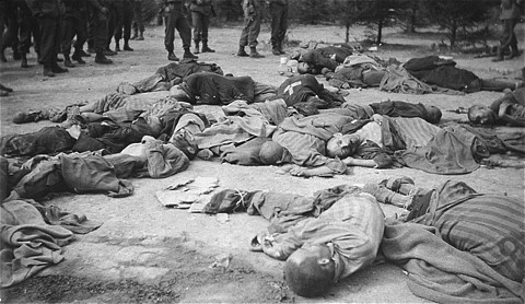 American soldiers view the bodies of prisoners shot by the SS during the evacuation of the Ohrdruf concentration camp.